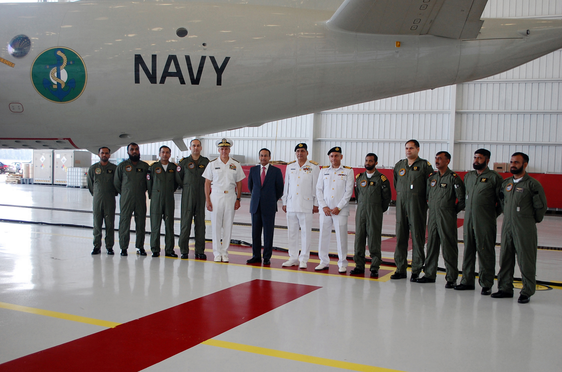 JACKSONVILLE, Fla. (April 30, 2010) Rear Adm. Stephen Voetsch, director of the Navy International Programs Office, center, Husain Haqqani, ambassador of the Islamic Republic of Pakistan, Vice Adm. Shahid Iqbal, Pakistan navy Chief of Staff, Capt. Abdul Basit Pakistan navy and members of Pakistan navy 28 Squadron gather for a photo during the U.S. Navy and Pakistan Navy P-3C Orion Transfer Ceremony at Naval Air Station Jacksonville. (U.S. Navy photo by Kaylee LaRocque/Released)